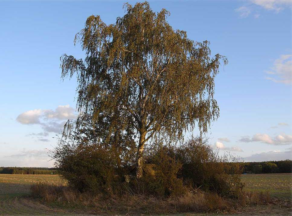 Leetze Steingrab 1, Chambered Tomb in Saxony-Anhalt